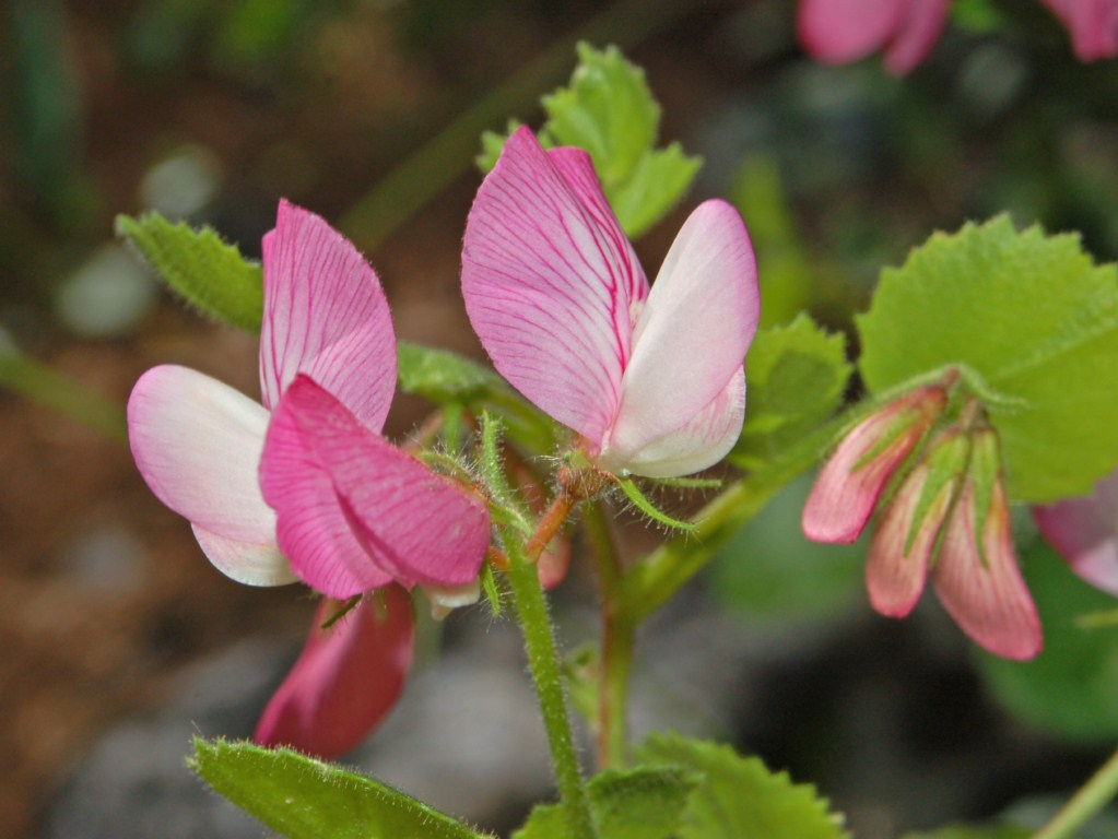 Ononis rotundifolia